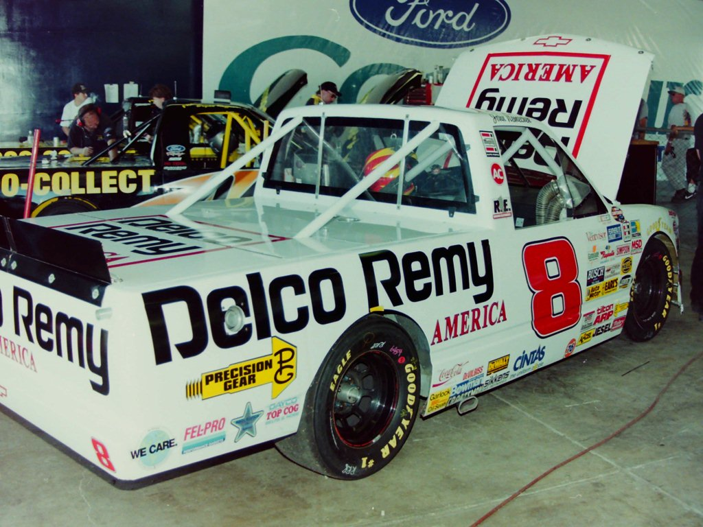 John Nemechek's No. 8 Delco Remy Chevrolet, fielded by Chek Racing during the 1996 NASCAR Craftsman Truck Series. Bryan Reffner's No. 44 in background.